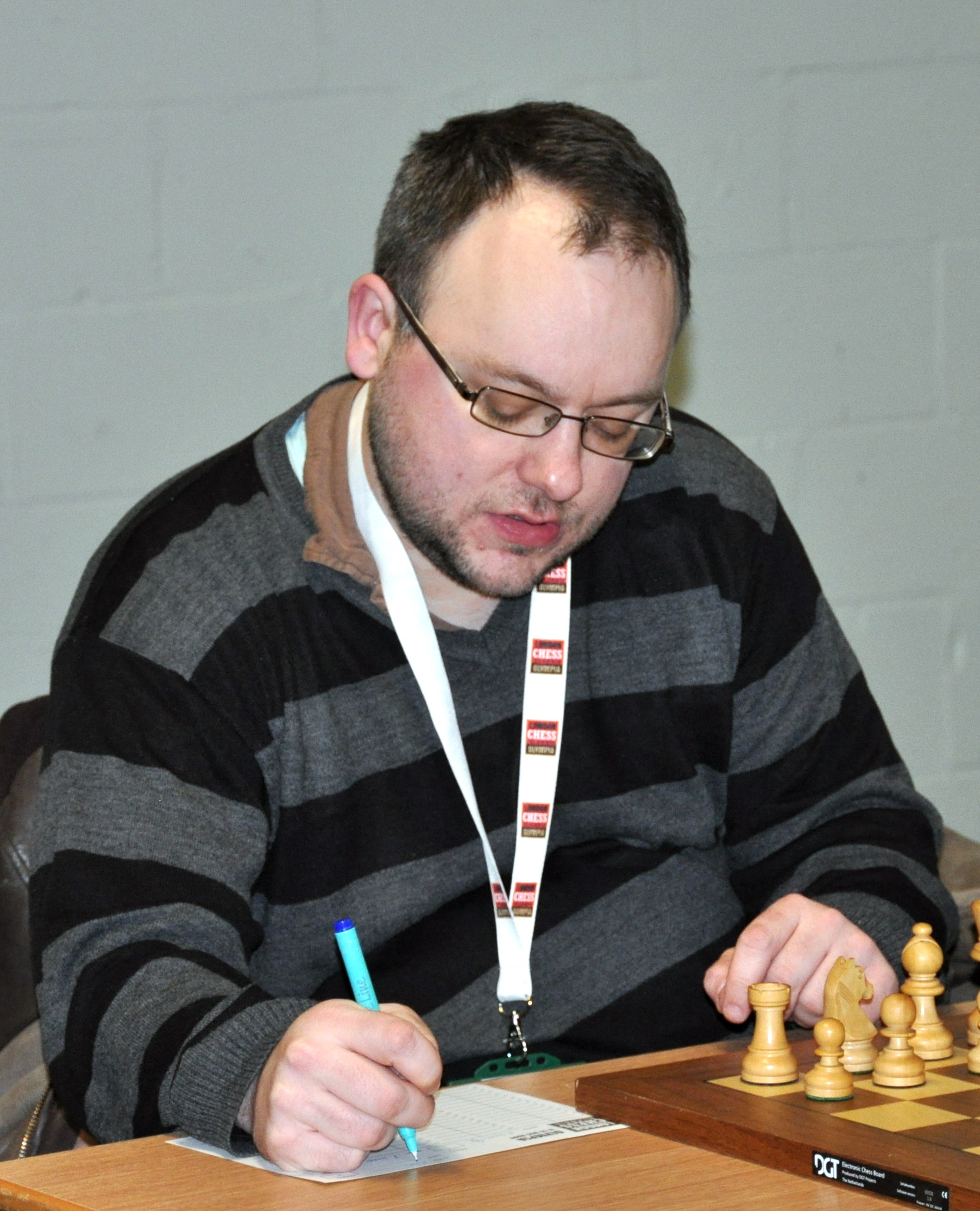 Daniel Gormally - London Chess Classic 2010